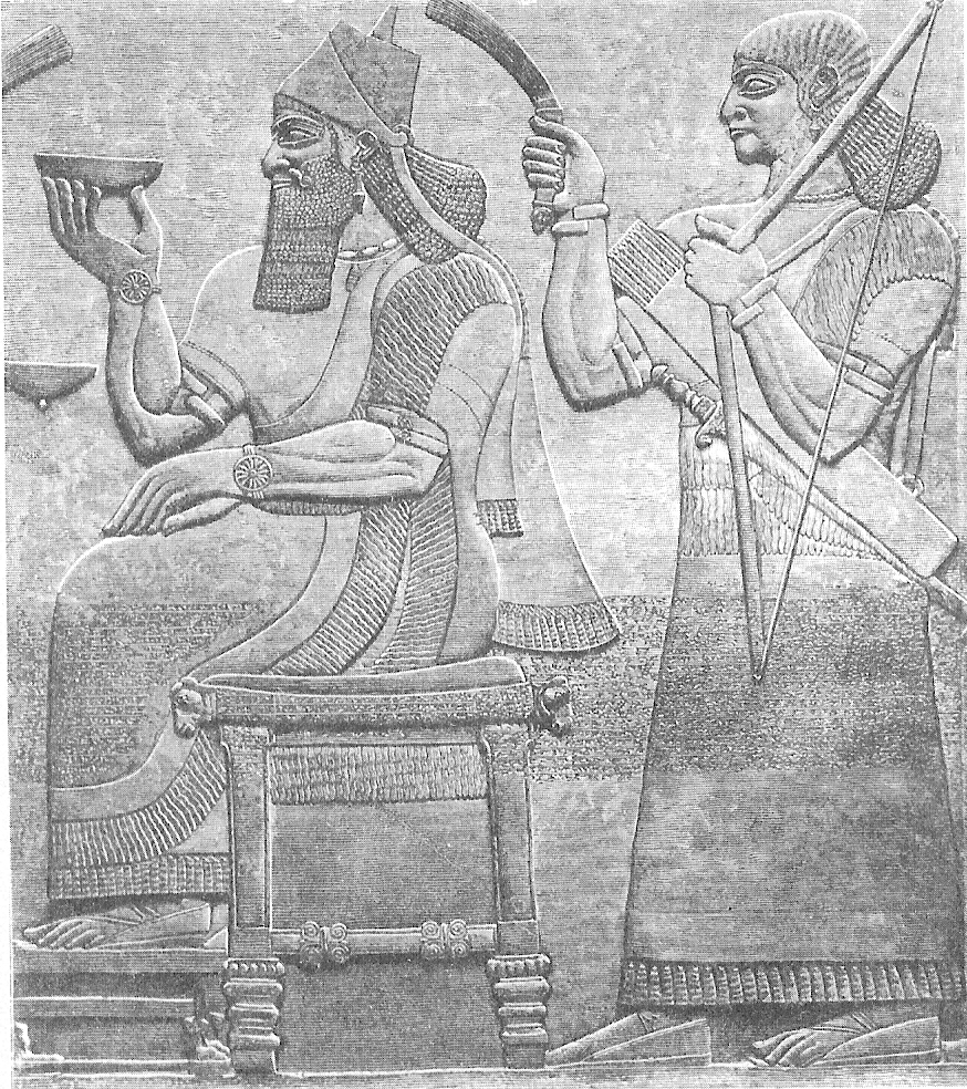 Original description: Ashur-nasir-pal II sitting on the throne